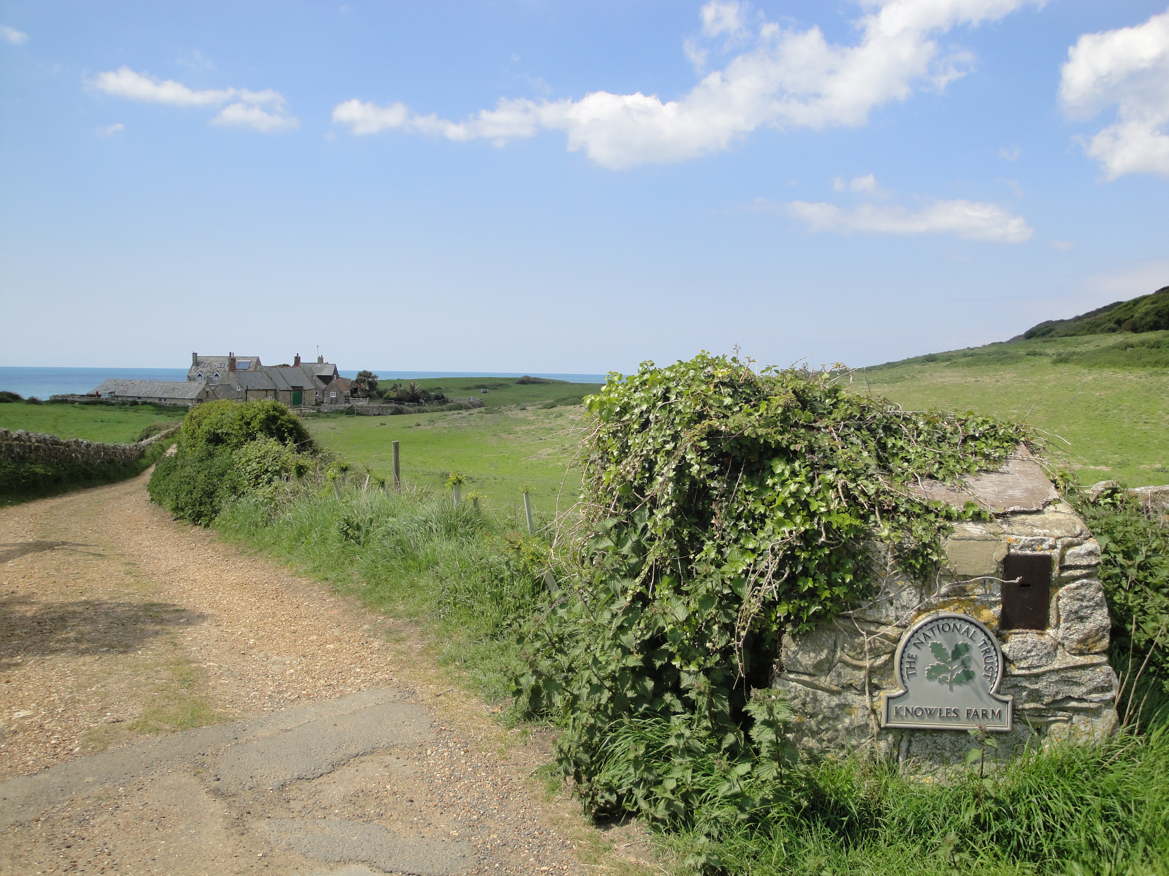 The entrance to Knowles Farm, near St Catherine's Lighthouse on the Isle of Wight.